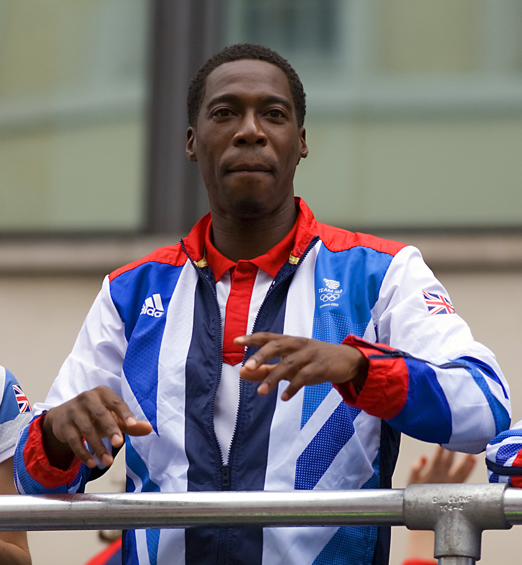 London 2012 Olympic & Paralympic Games Victory Parade, 10th September